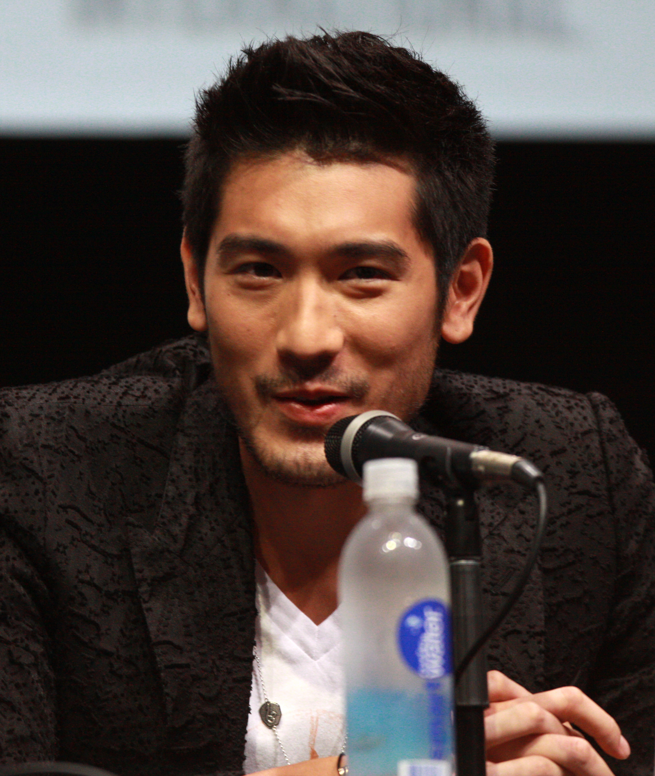 Godfrey Gao at the 2013 San Diego Comic Con International in San Diego, California.